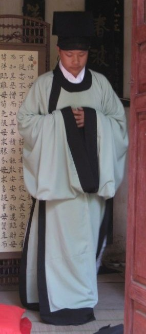 Panling lanshan (盤領襴衫) - Men's Chinese traditional clothing (hanfu)